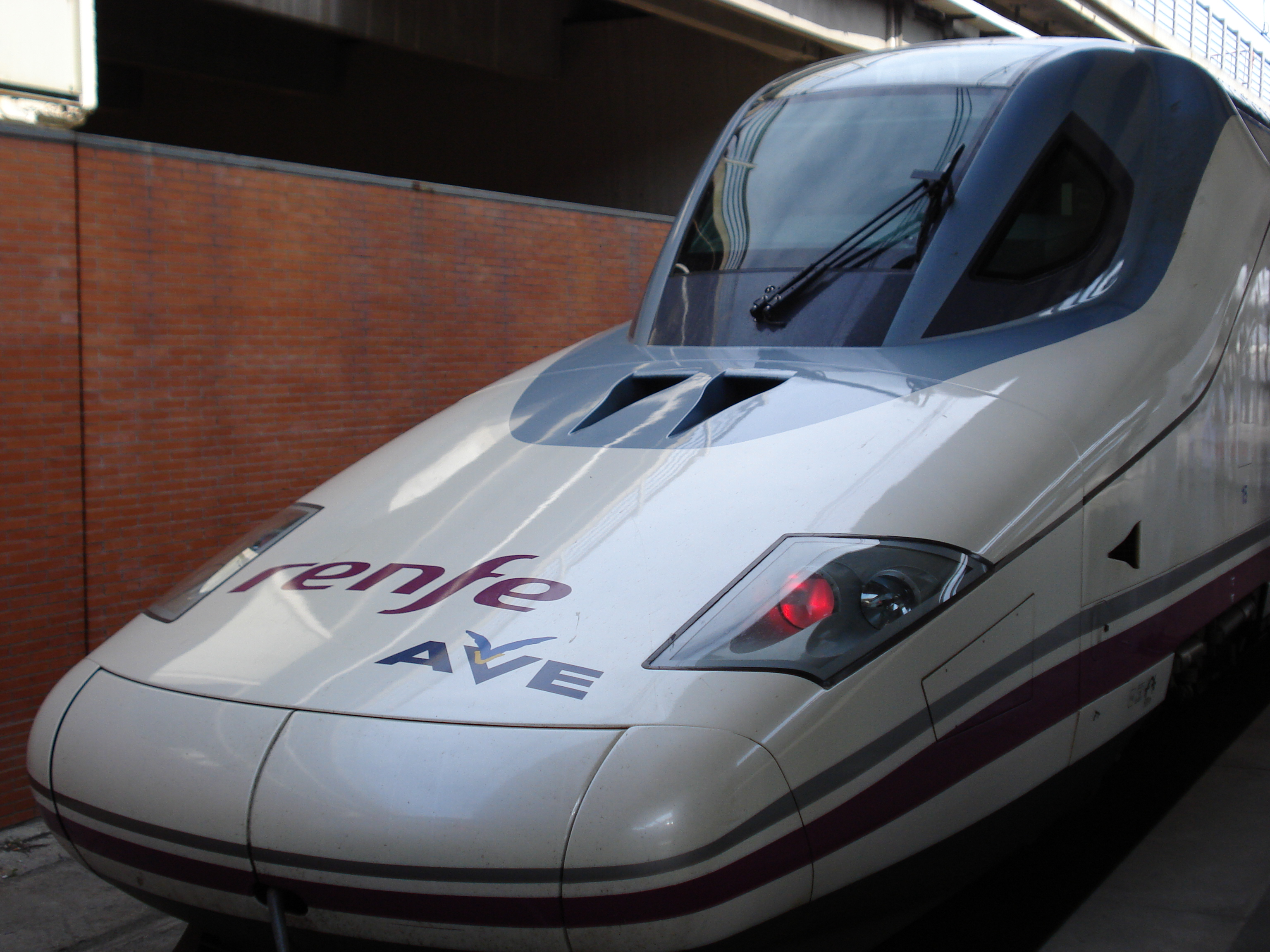 RENFE Class 102 (Talgo 350) train in Madrid (Spain).